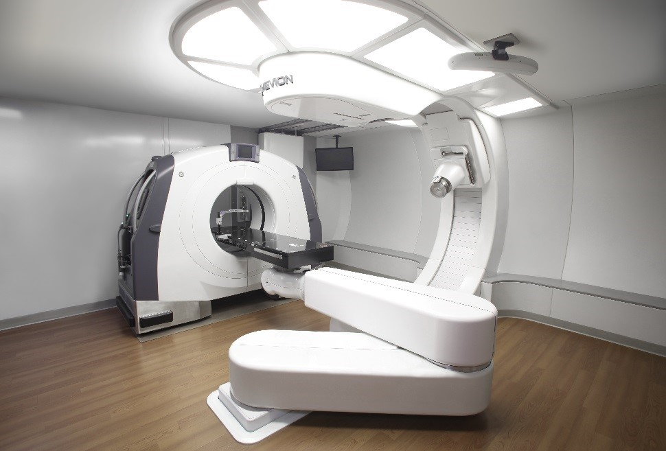 The MEVION S250™ with Verity Patient Positioning System™ installed at S. Lee Kling Proton Therapy Center at Siteman Cancer Center at Barnes-Jewish Hospital and Washington University School of Medicine in St. Louis.